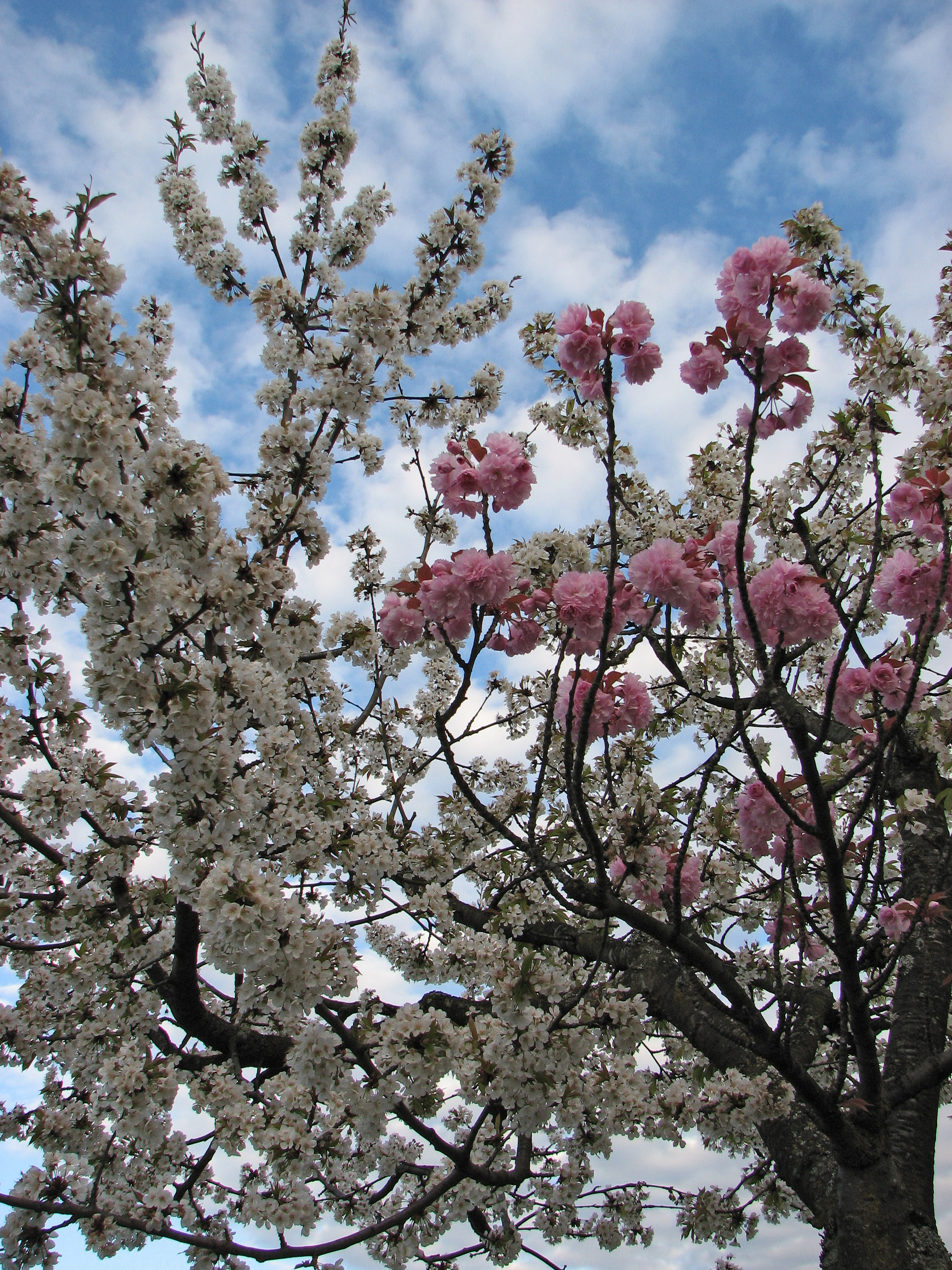 A unidentified, grafted flowering cherry tree showing both pink and white blossoms.